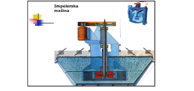 Impeller machine